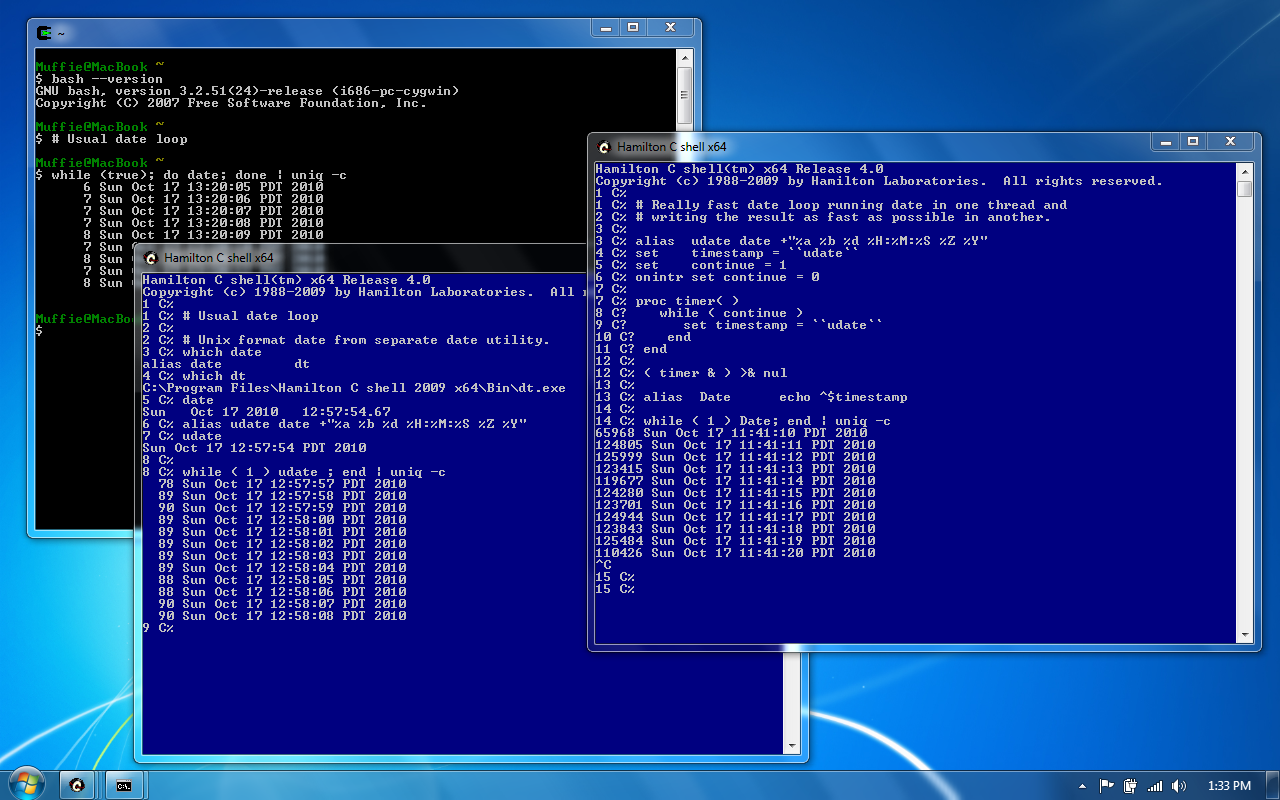 Hamilton C shell and Cygwin bash date loop windows under Windows 7. Shows relative performance of Hamilton C shell and Cygwin bash running a popular benchmark. The numbers to the left show how many times per second that particular shell was able to run the date utility. The overall run time for each iteration is split between the shell, the operating system and the date utility. Since the operating system's time to create a process is given and the date utility is expected to be quite fast, this benchmark is intended to measure how fast the shell does its part to create processes. The bigger the number the better. On this particular benchmark, Cygwin's bash averaged 7.2 processes created per second. Hamilton C shell averaged 88.1 per second, about 12x as fast. The multithreaded C shell "Really fast date loop" example "cheats" by separating the activities into two threads. One thread runs date as fast as possible (presumably, the same 88 times per second), updating a shared variable. The other thread simply reports the latest value as fast as possible. The resulting numbers (around 125,000 per second) are, of course, a little silly; the C shell isn't really 18,000x as fast. The example is simply a reminder that on Windows, processes are more expensive than on Unix, but threads are very cheap and that if the problem lends itself to a multithreaded solution, improvements can be quite dramatic. System configuration: Standard 2008 aluminum MacBook Intel Core 2 Duo @ 2.4GHz 4.0GB RAM 64-bit Windows 7 Ultimate 160GB C: partition, 60% free